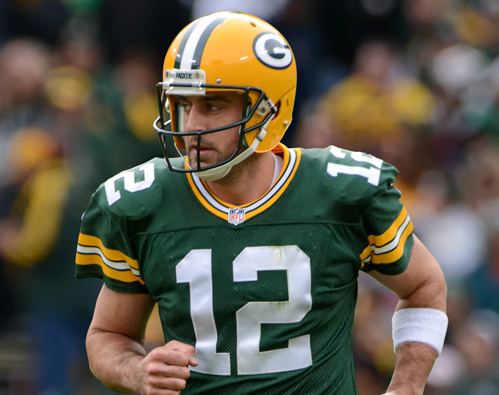 Green Bay Packers quarterback, Aaron Rodgers, playing against the Carolina Panthers on October 19, 2014.